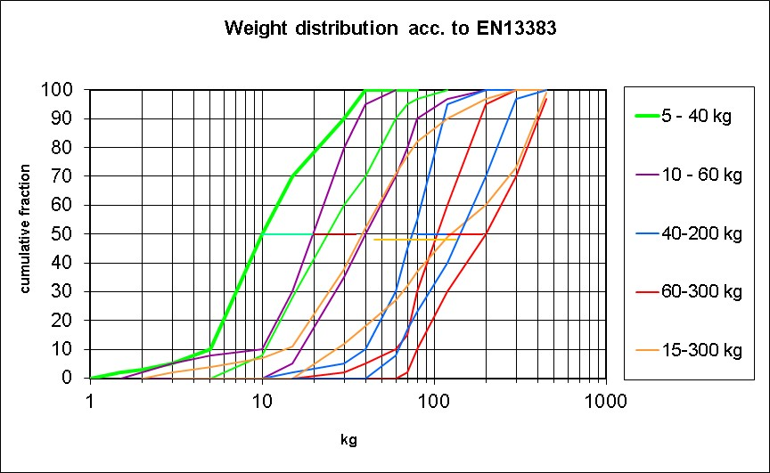 Rock grading according to the requirements of EN13383 for Light Gradings (LMA and LHMB)